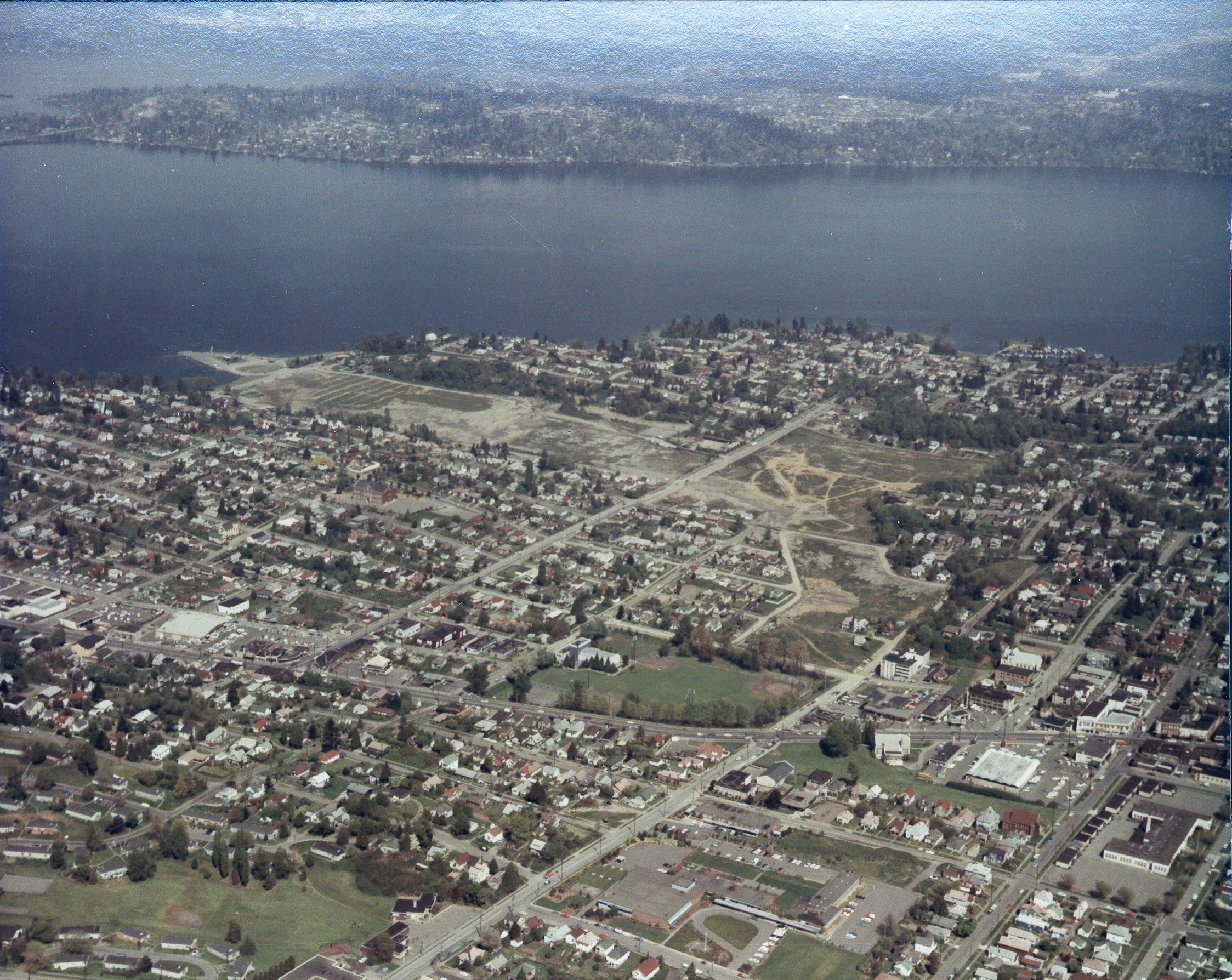 Aerial of Rainier Valley, Seattle, Washington, featuring Genesee Park. Item 77871, Forward Thrust Photographs (Record Series 5804-04), Seattle Municipal Archives.